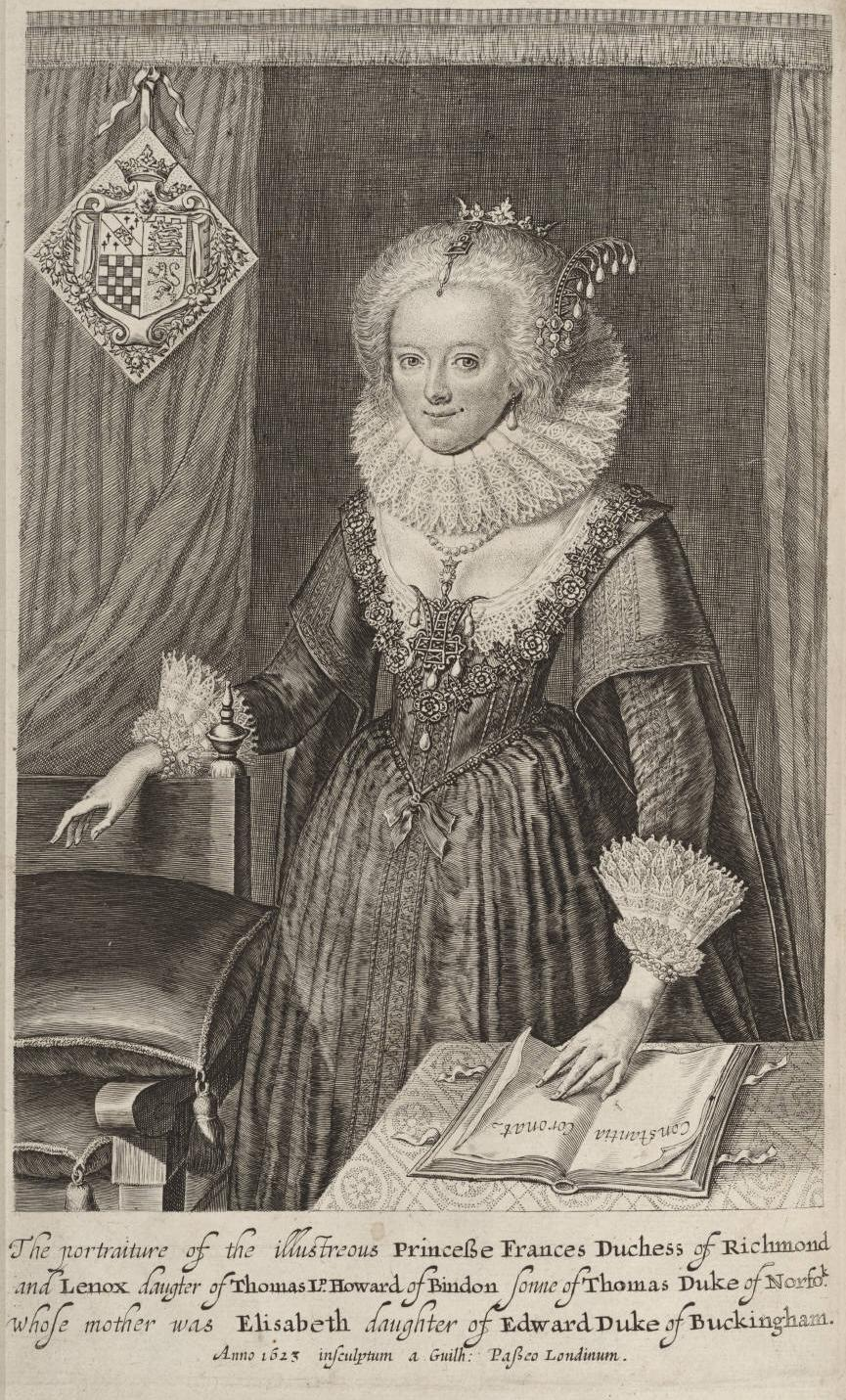 Portrait of Frances Stewart (daughter of Thomas Howard, 1st Viscount Howard of Bindon), who had m. Ludovic Stewart, 2nd Duke of Lennox on 16 June 1621, a plate from John Smith's The generall historie of Virginia, New-England, and the Summer Isles: with the names of the adventurers, planters, and governours from their first beginning ano. 1584 to this present 1624: with the procedings of those severall colonies and the accidents (London: Printed by I.[ohn] D.[awson] and I.[ohn] H.[aviland] for Michael Sparkes, 1624)